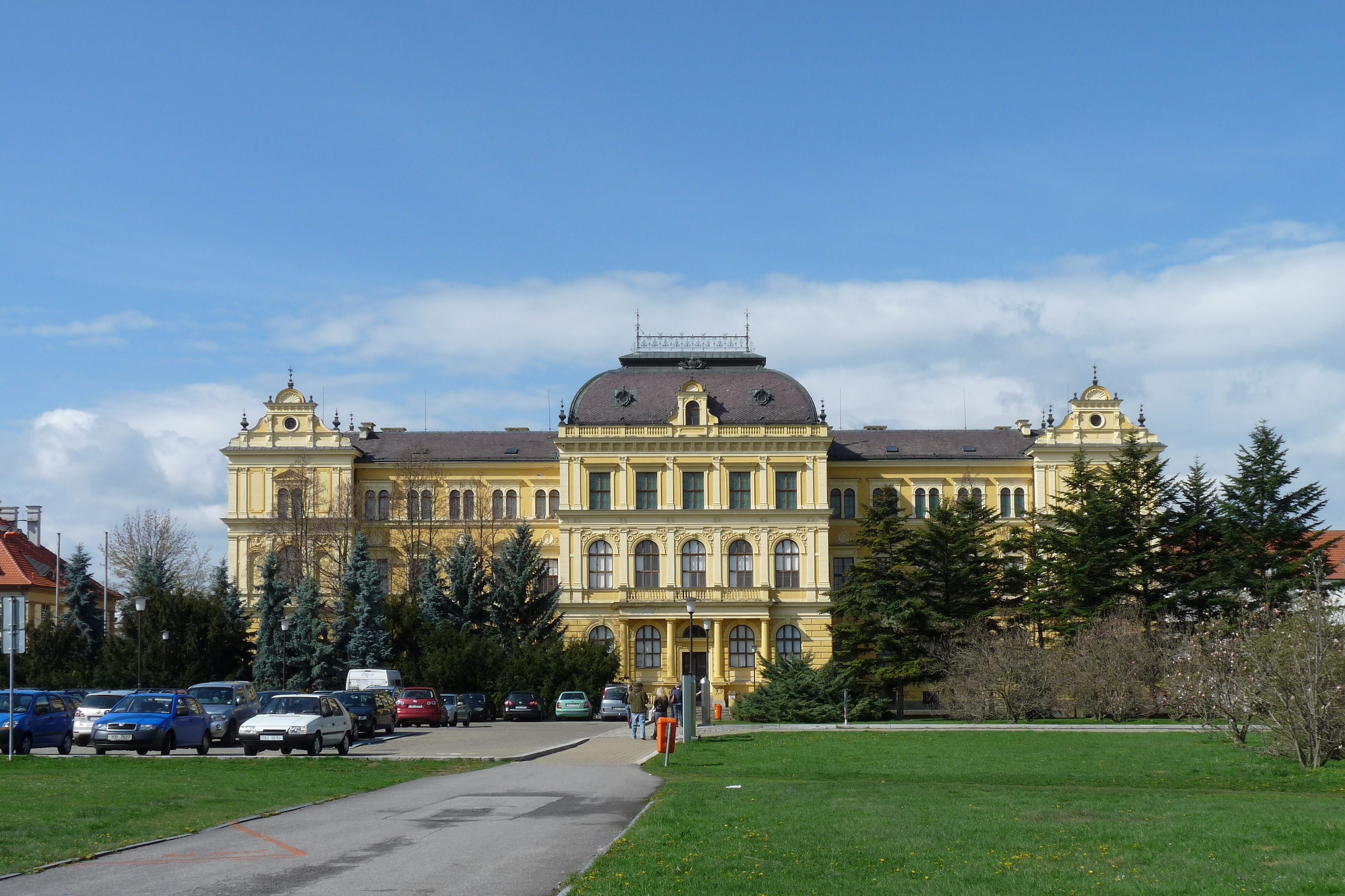 South-Bohemian Museum in České Budějovice, Czech Republic.